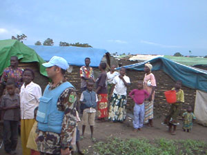 Original caption states: "Internally Displaced Persons Camp at Bunia." Taken during the visit of U.S. Assistant Secretary of State Kim Holmes